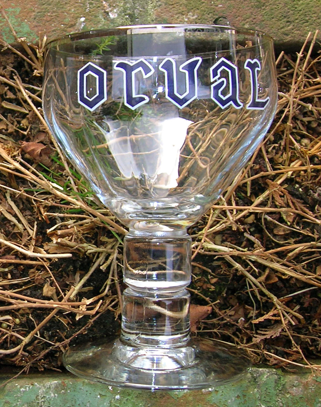 Glass of 'Orval' Belgian beer. Own work.